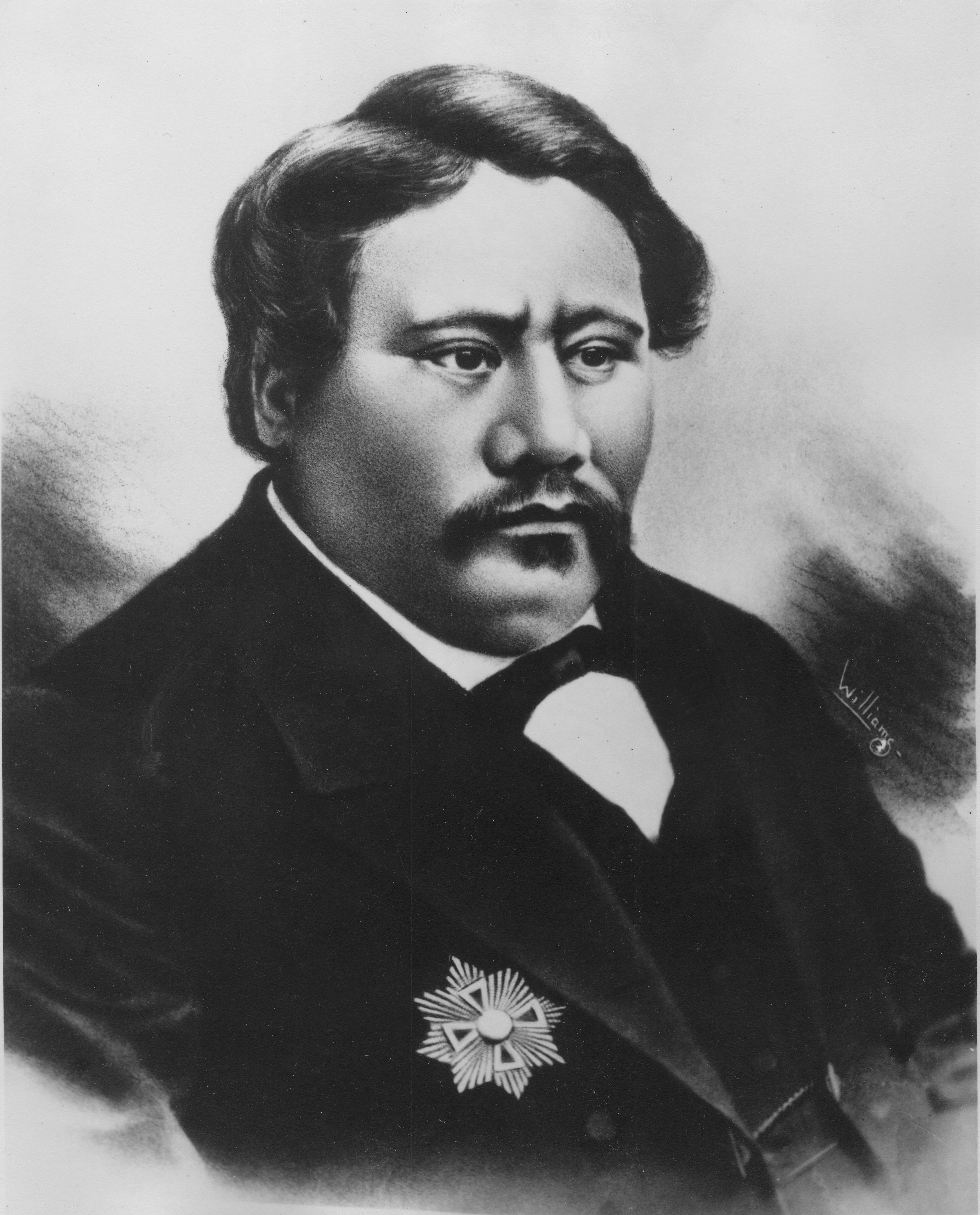 Royal Portrait Photograph of Kamehameha V